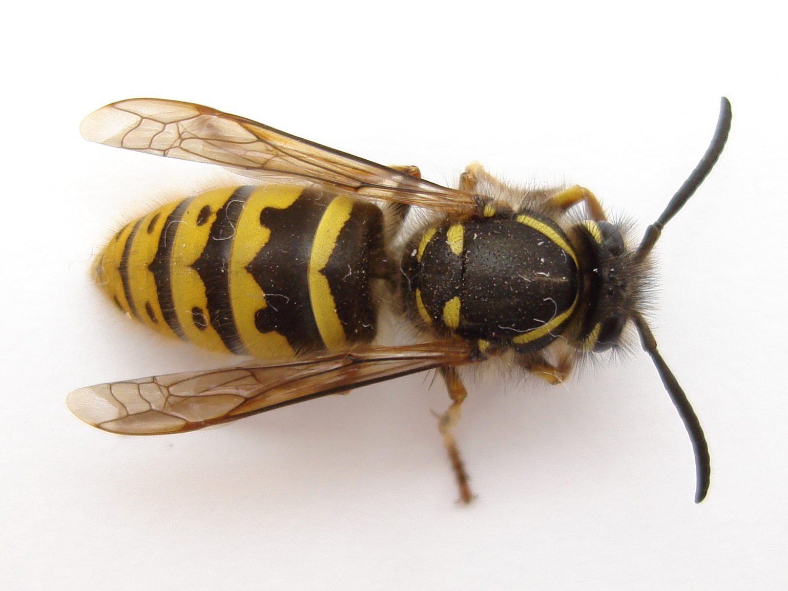 I am unsure of the exact species of wasp. It was photographed in Ireland. It is probably either the German wasp or the Common wasp.